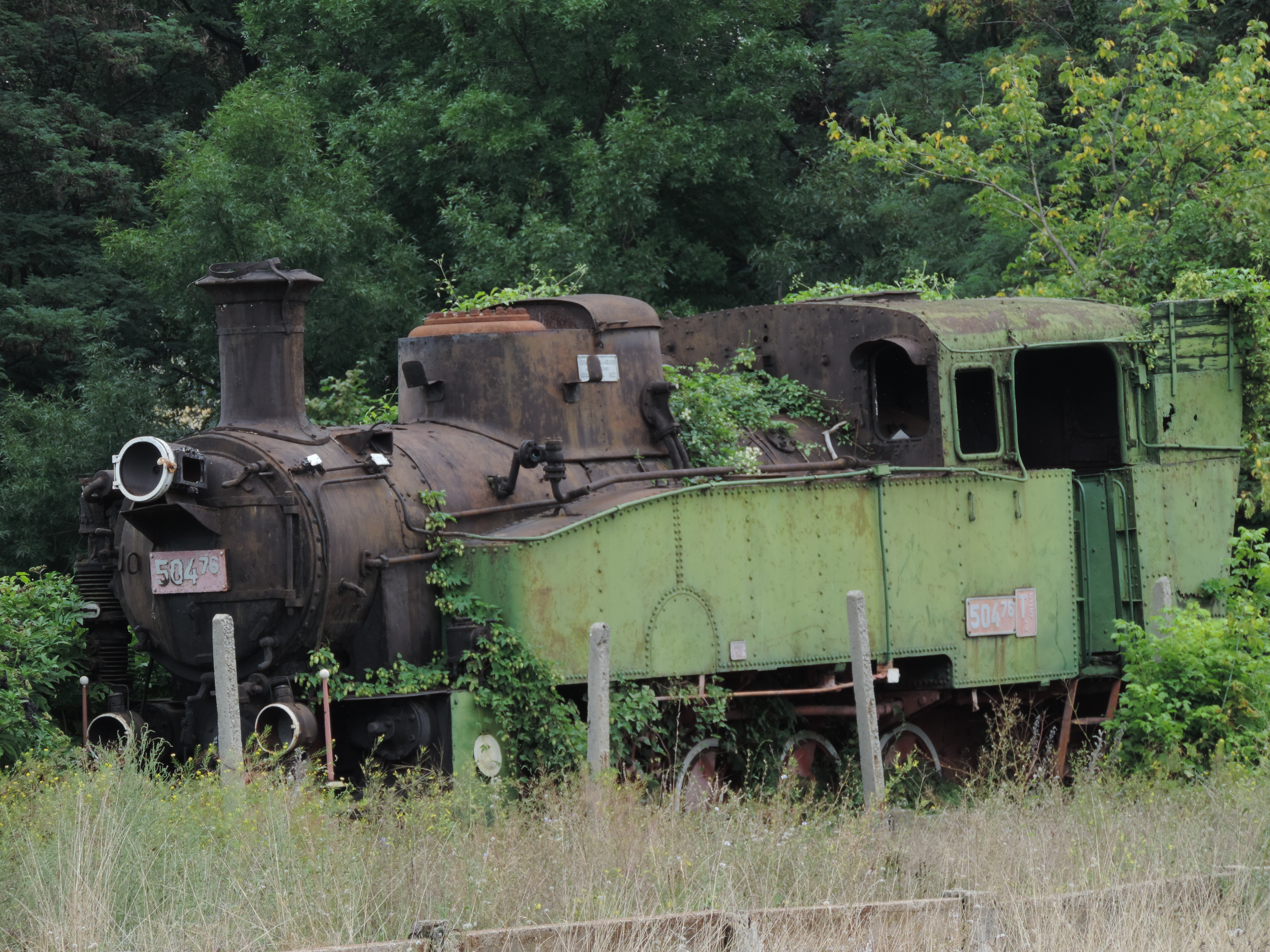 Steam locomotive 504.76, Bansko railway station, Bulgaria